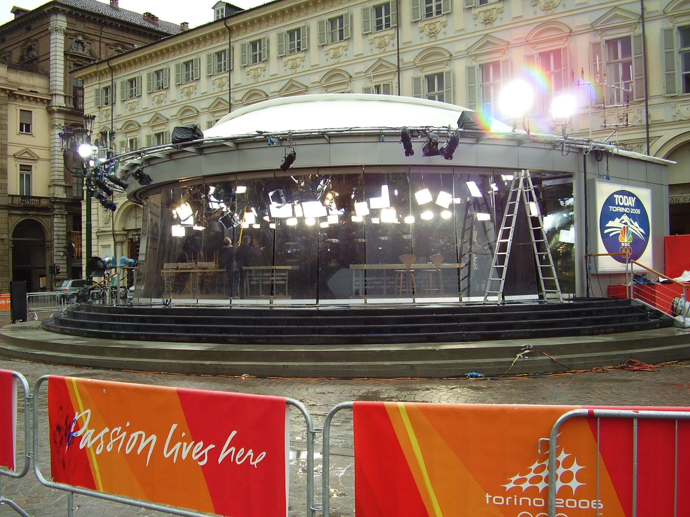 The Today outdoor studio as seen at the Torino Winter Olympic Games in 2006.